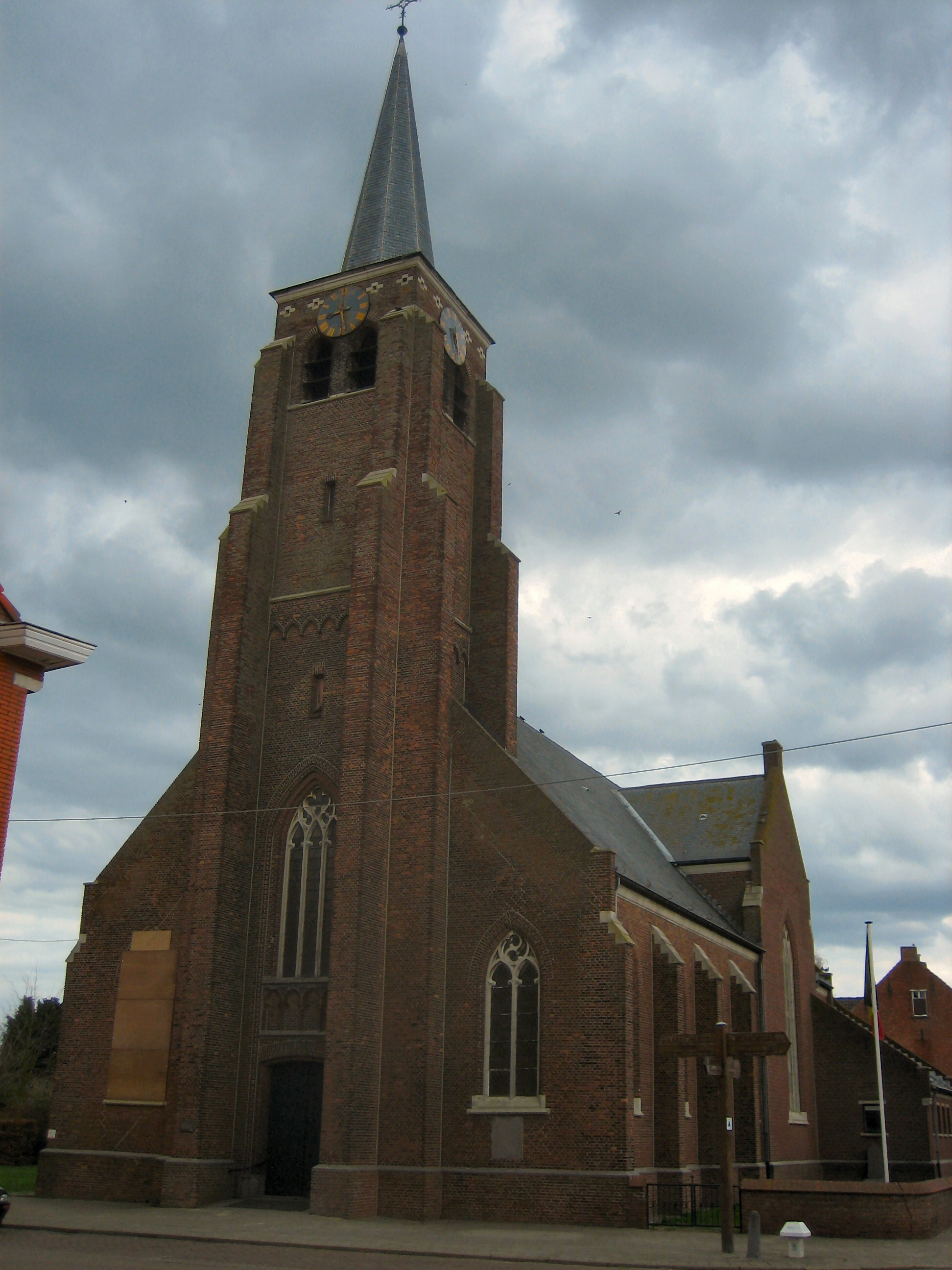 Zondereigen, Belgium. Sint Rumolduschurch